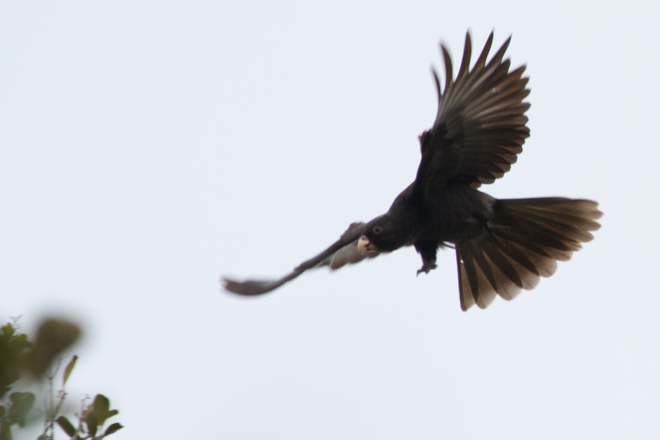 Lesser Vasa parrot Can't remember size exactly, but going with lesser for now.